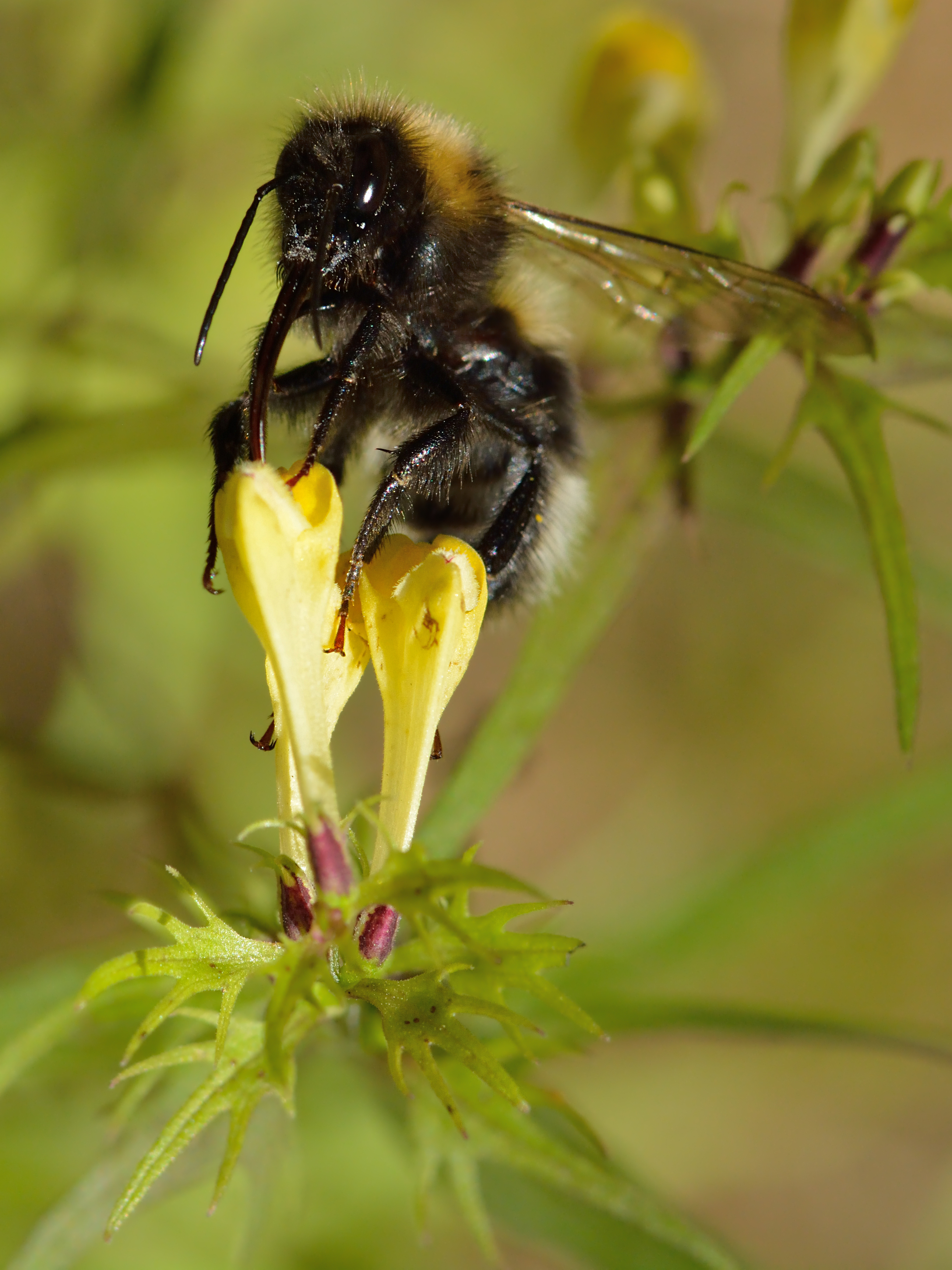 Garden bumblebee (Bombus hortorum) is foraging on the common cow-wheat (Melampyrum pratense). Tallinn, Estonia.